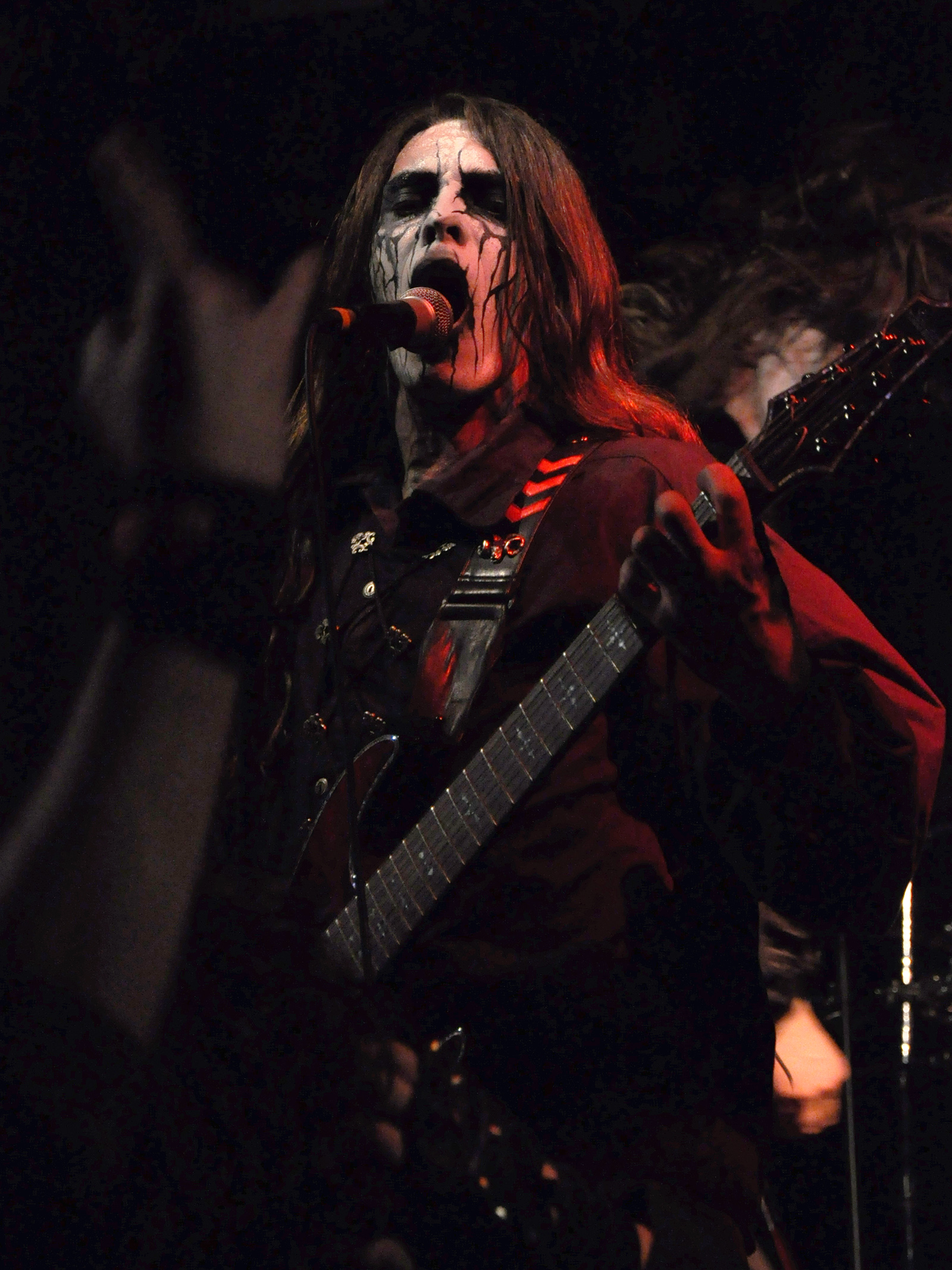 Carach Angren, a symphonic Black Metal group from the Netherlands, during their first concert in France, in Evreux, on the 21st of February 2009; Seregor (vocals and guitar).